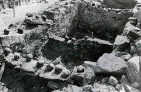 17th Century crypt found in 1911, Pori, Finland. Image by K. E. Klint (1865–1938)